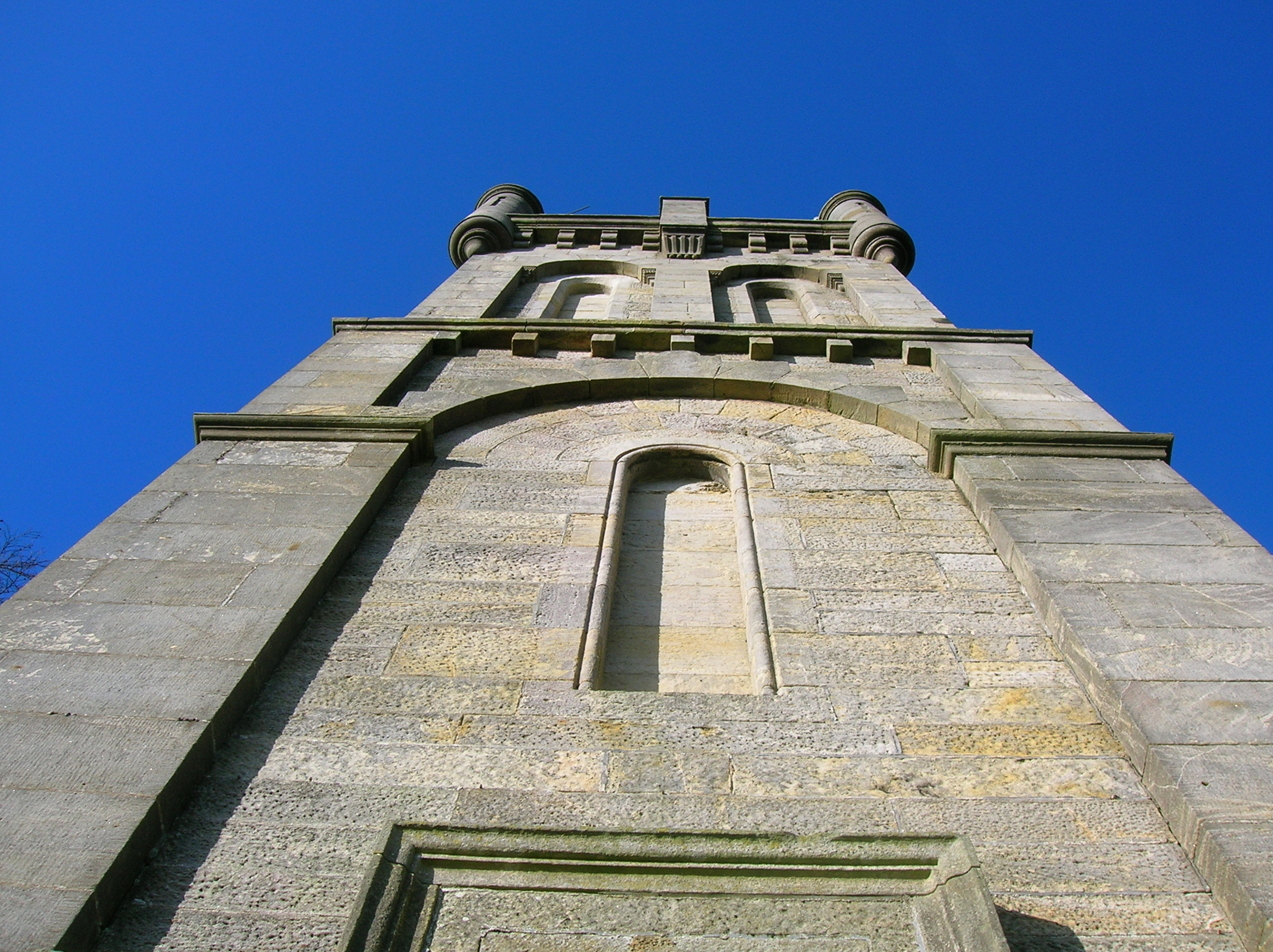 Wallace's Tower, Barnweill Hill, Craigie Parish, Ayrshire, Scotland